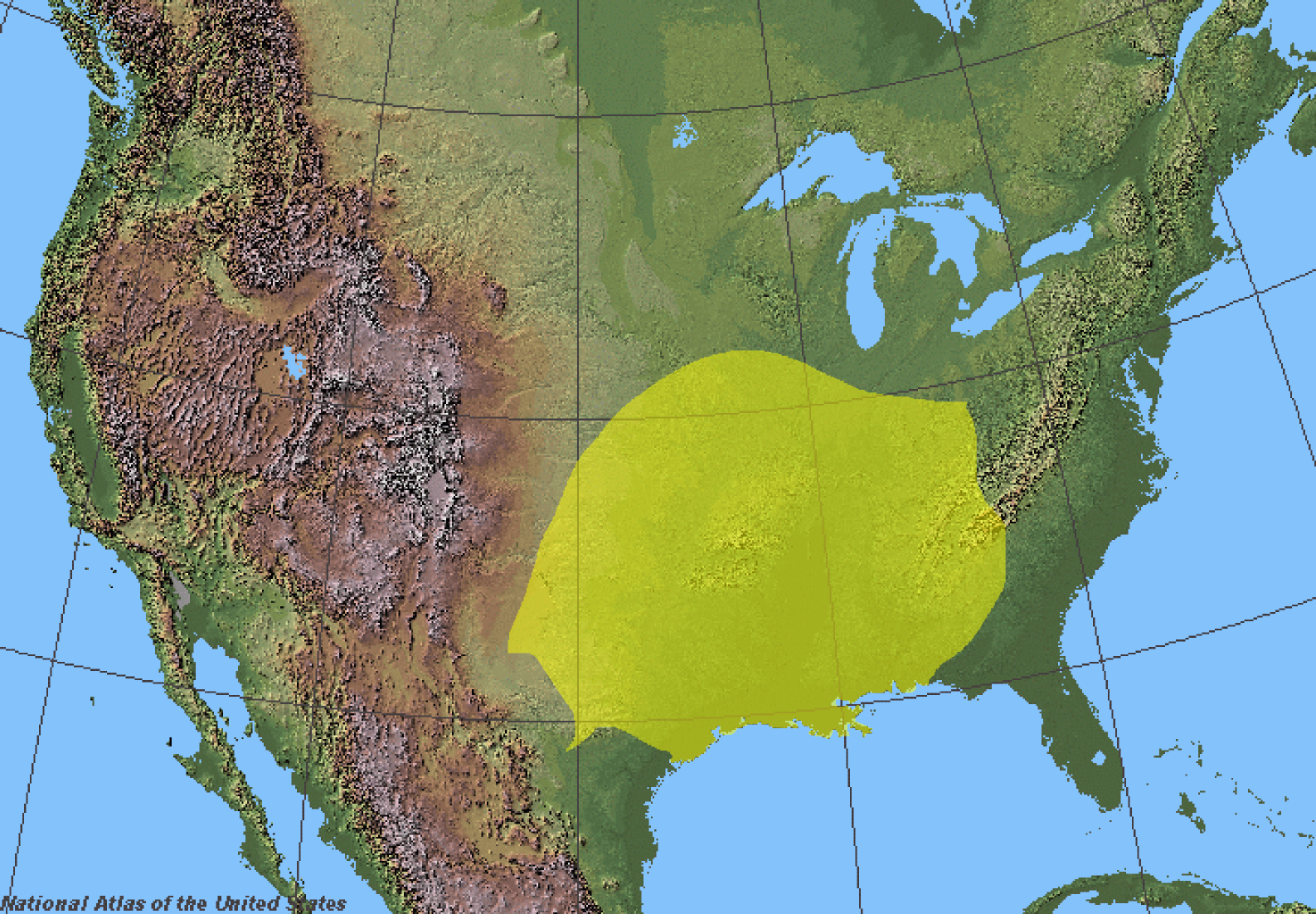 Complete distribution range of wild and domestic Loxosceles reclusa.